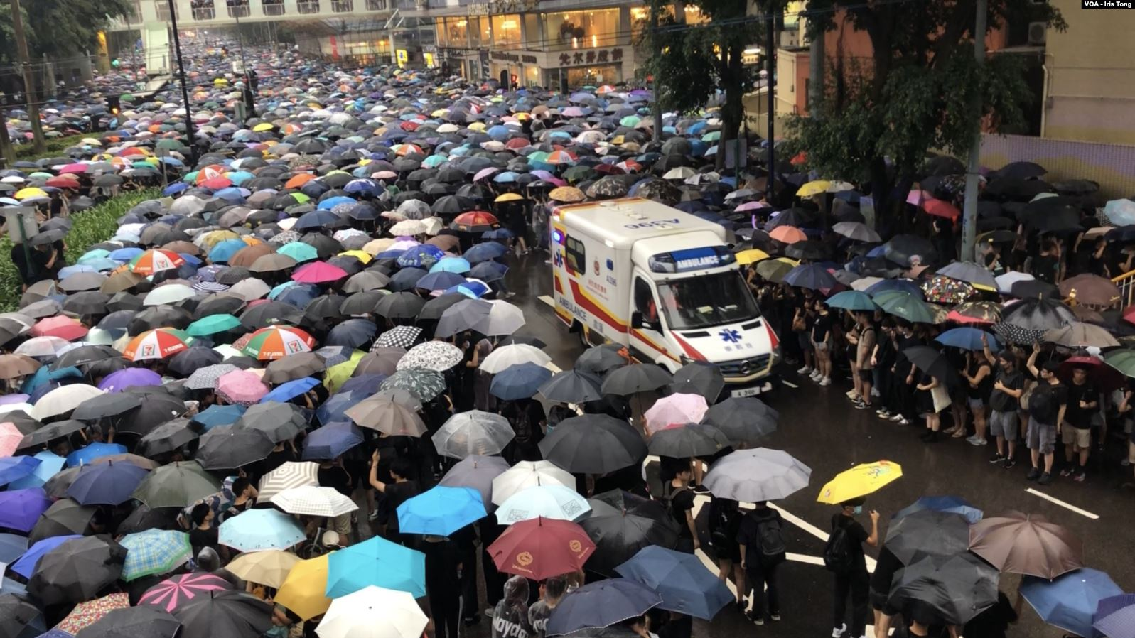 Protesters making way for ambulance during a rally protest on 18 August 2019.